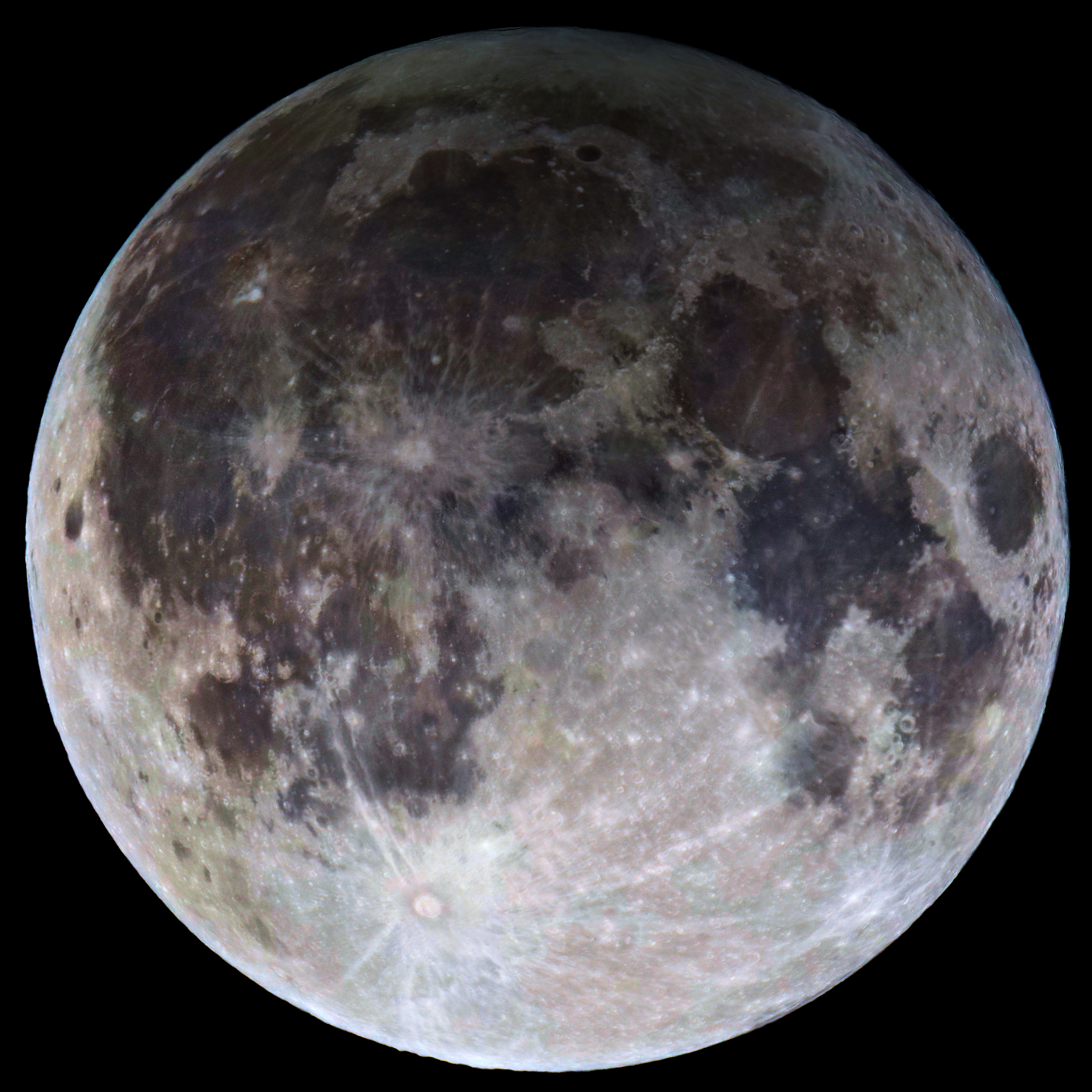 2016 Harvest Moon penumbral eclipse at 18:54 UTC Taken by Giuseppe Donatiello The Harvest Moon is the full moon that falls the closest to the Northern Hemisphere’s autumnal equinox. In the Southern Hemisphere, this September full moon counts as the closest full moon to spring equinox. This image was taken at mid-eclipse. Tecnosky triplet APO70mm FPL-53 + KodakC183 no sharp